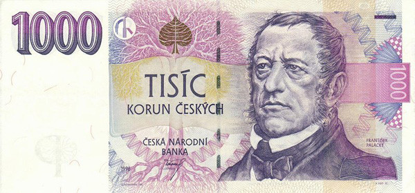 Obverse of Czech koruna thousand crowns bill.